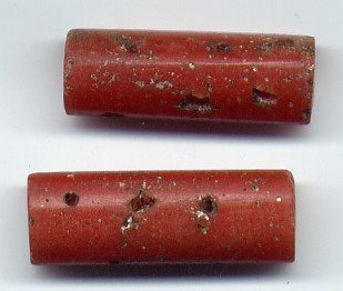 Yoruba, Ateyun beads (coral imitation).